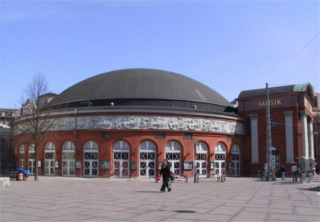 Cirkusbygningen, the old circus house in Copenhagen (higher resolution version will be contributed later)